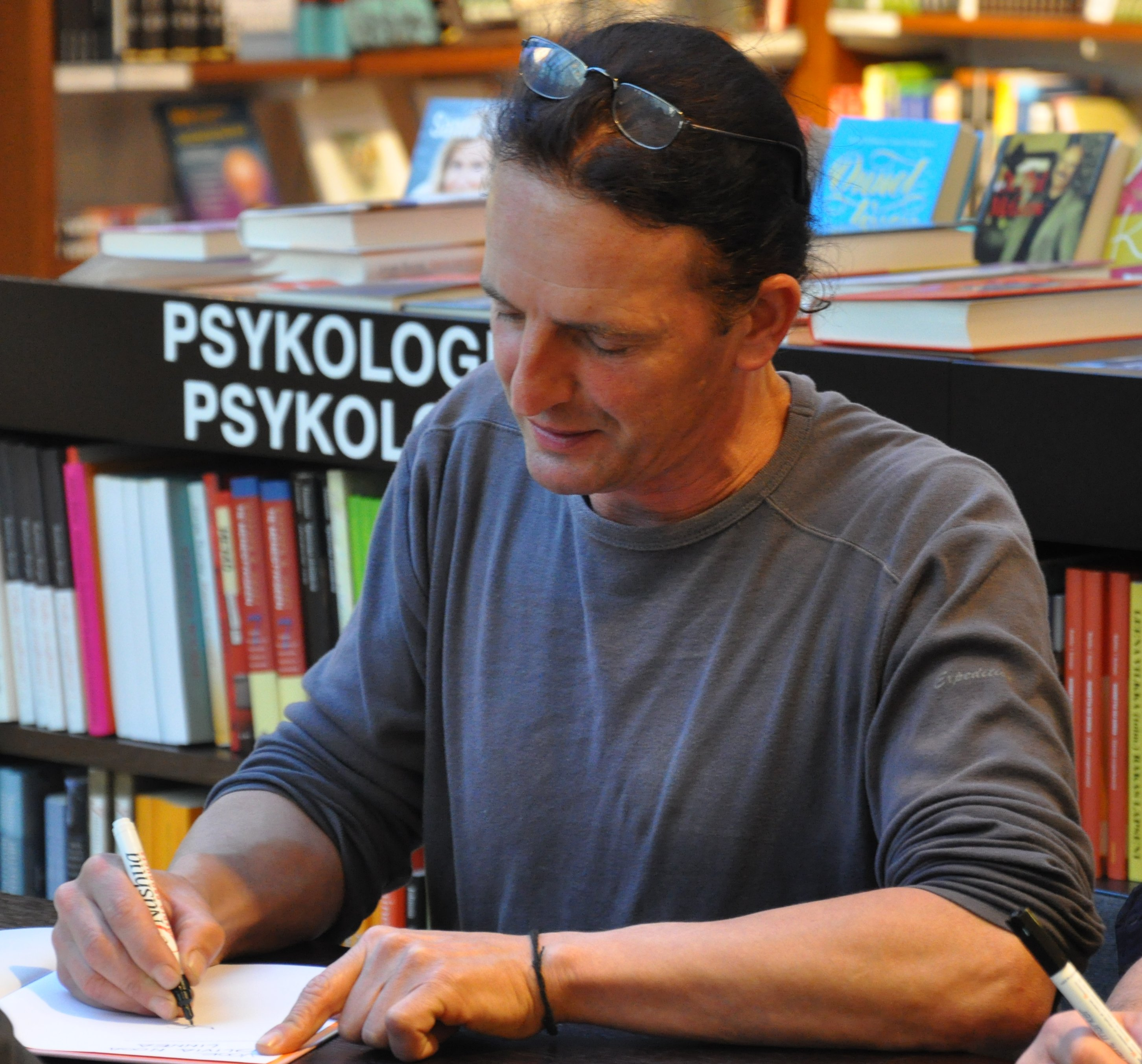 Dutch comic artist Mau Heymans signing a book at the Academic Bookstore in Turku, Finland.